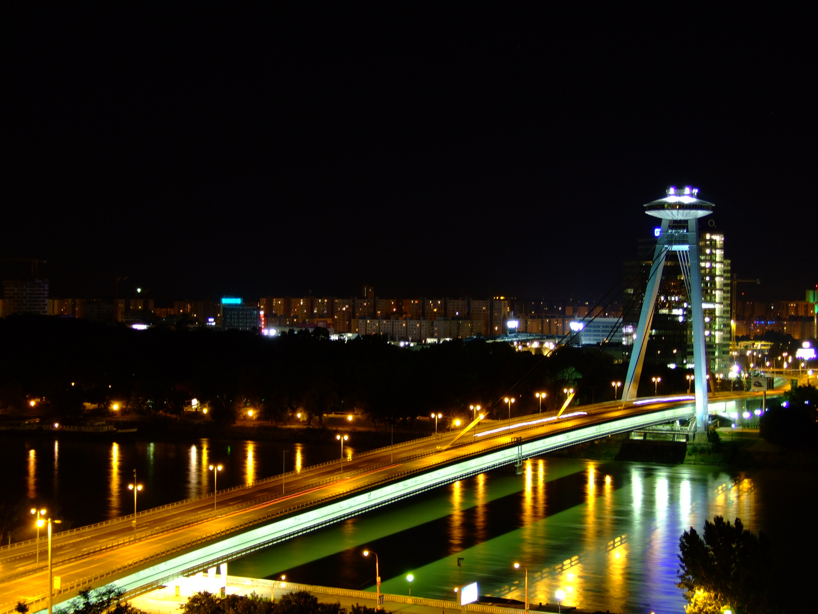 Nový most bridge in Bratislava, from the castle